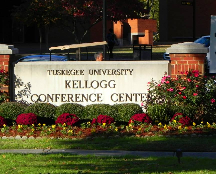 Kellogg Hotel and Conference Center